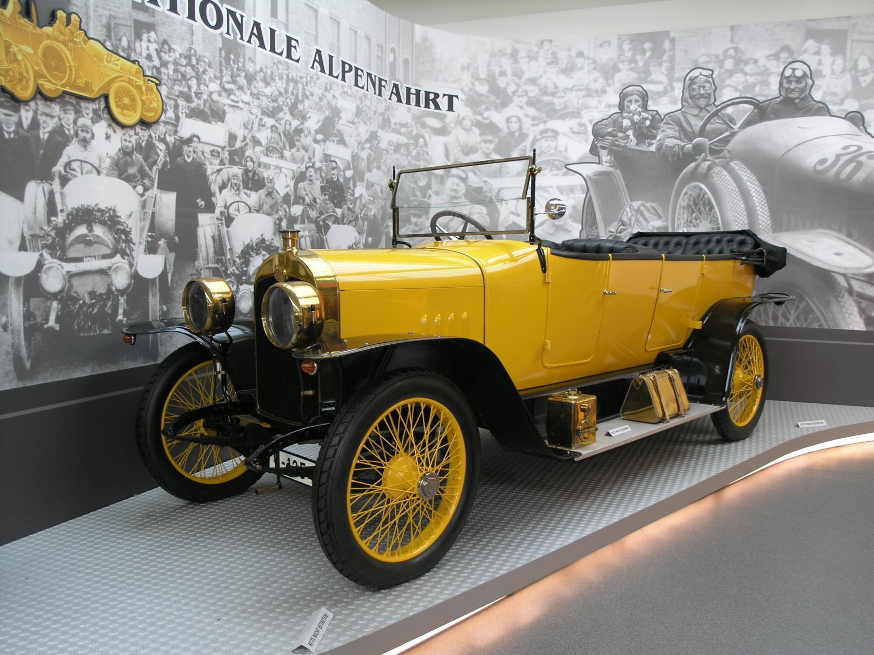 A 1913 Audi C 14/35 PS Alpensieger (“Alps champion”) in the August Horch Museum, Zwickau.